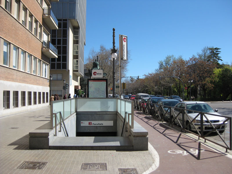 Facultats metro station, Valencia, Spain